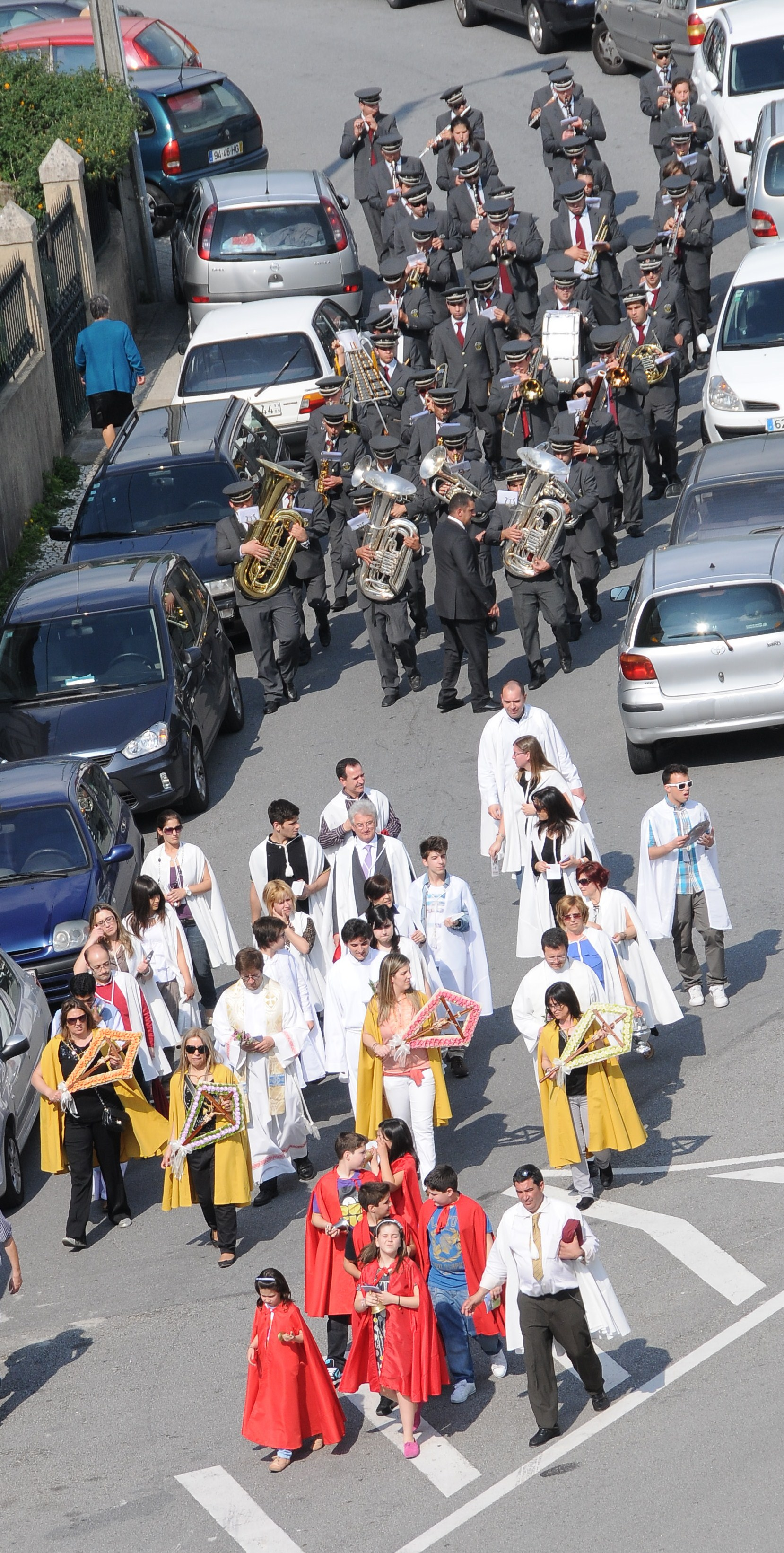 Easter Monday at Boavista Street, in Braga, Portugal.